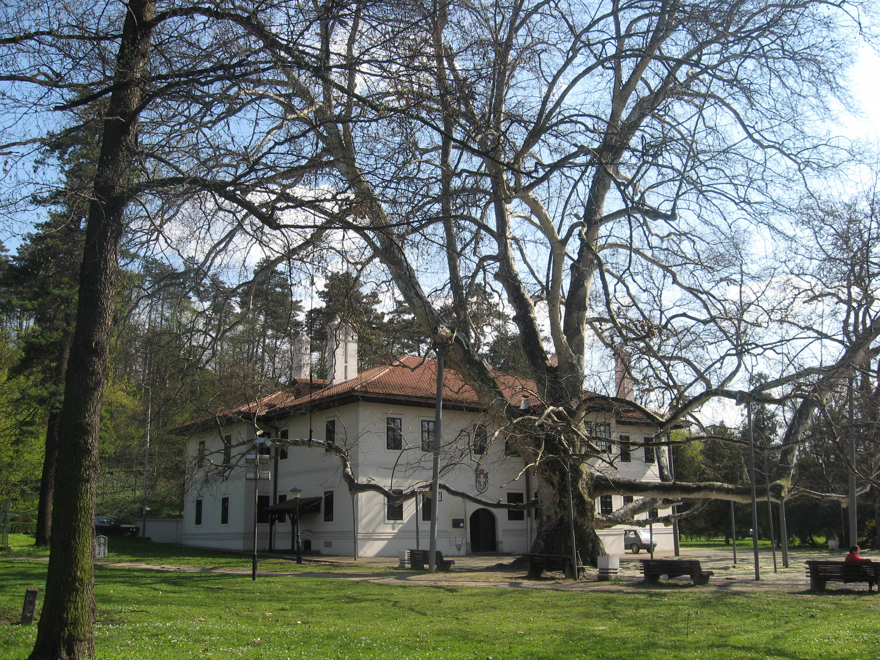 Prince Miloš's Residence, Topčider, Belgrade, Serbia